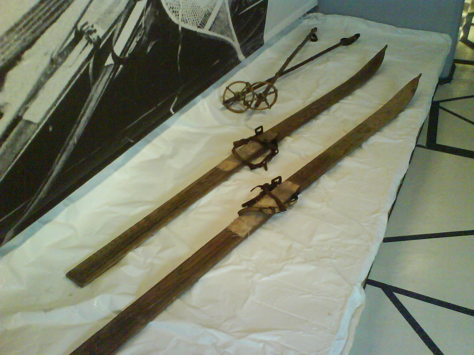 old skis